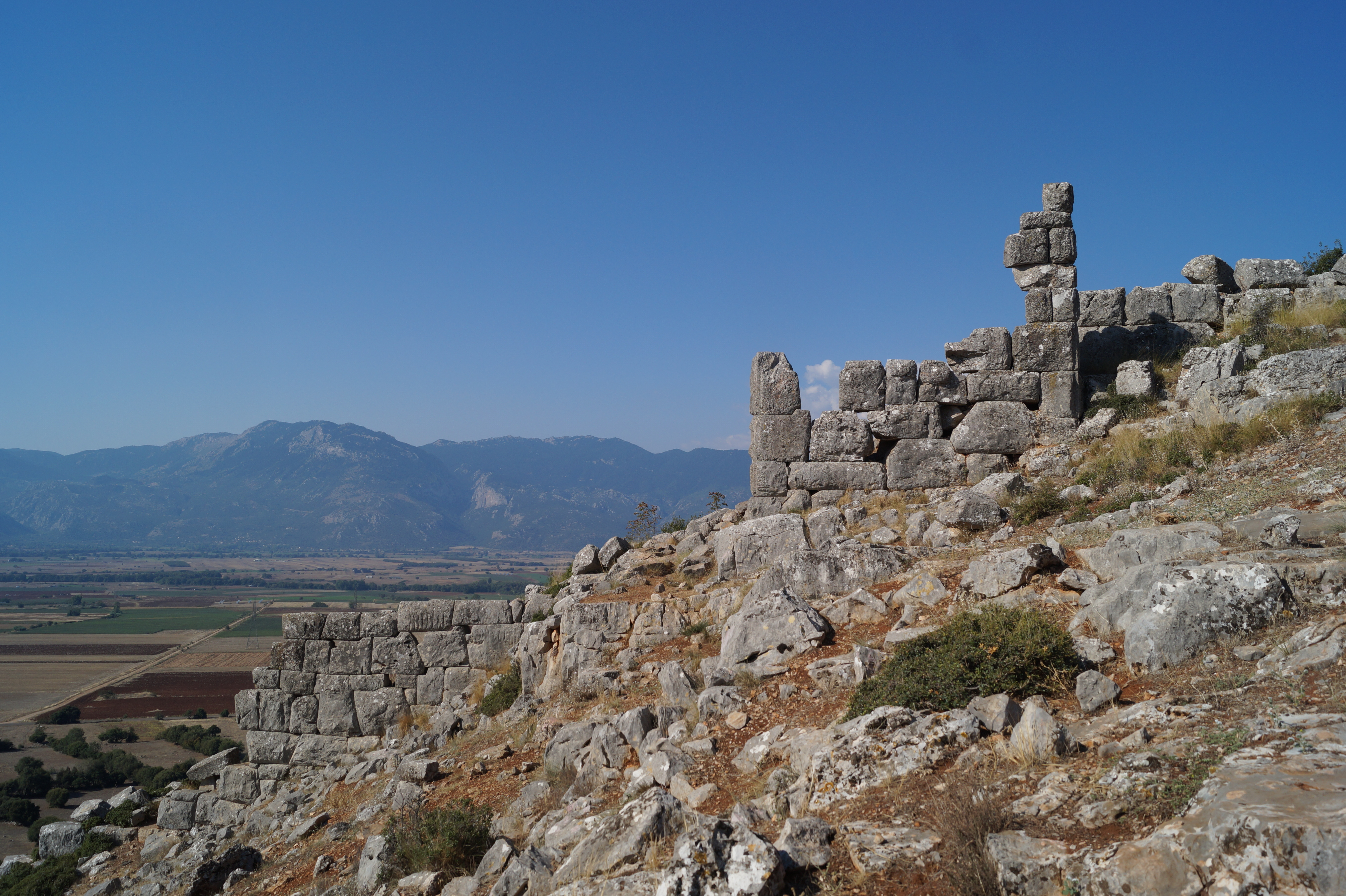 Fthiotida, Greece: Ancient city of Drymaia, tower of the east wall.